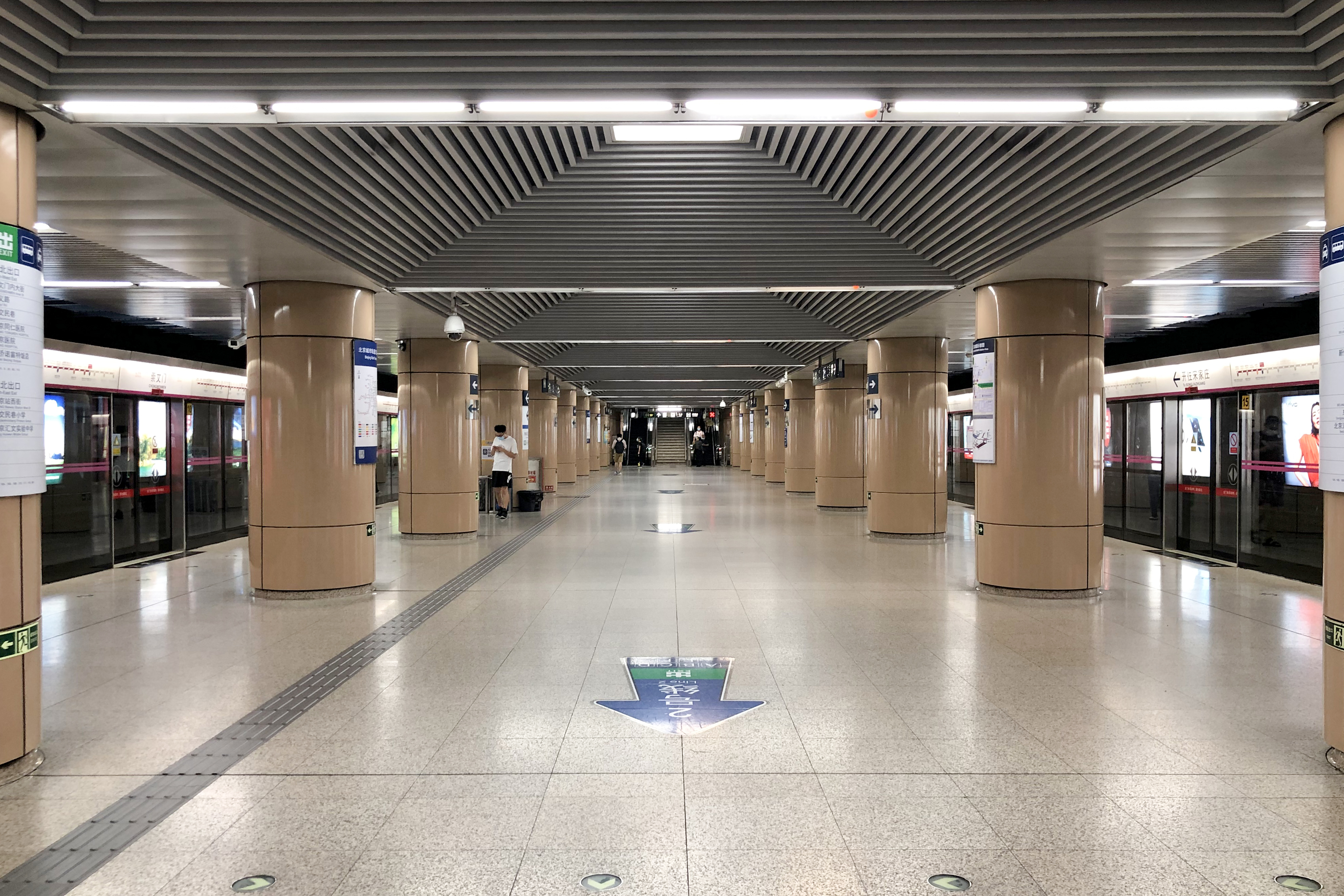 From Line 2: South.